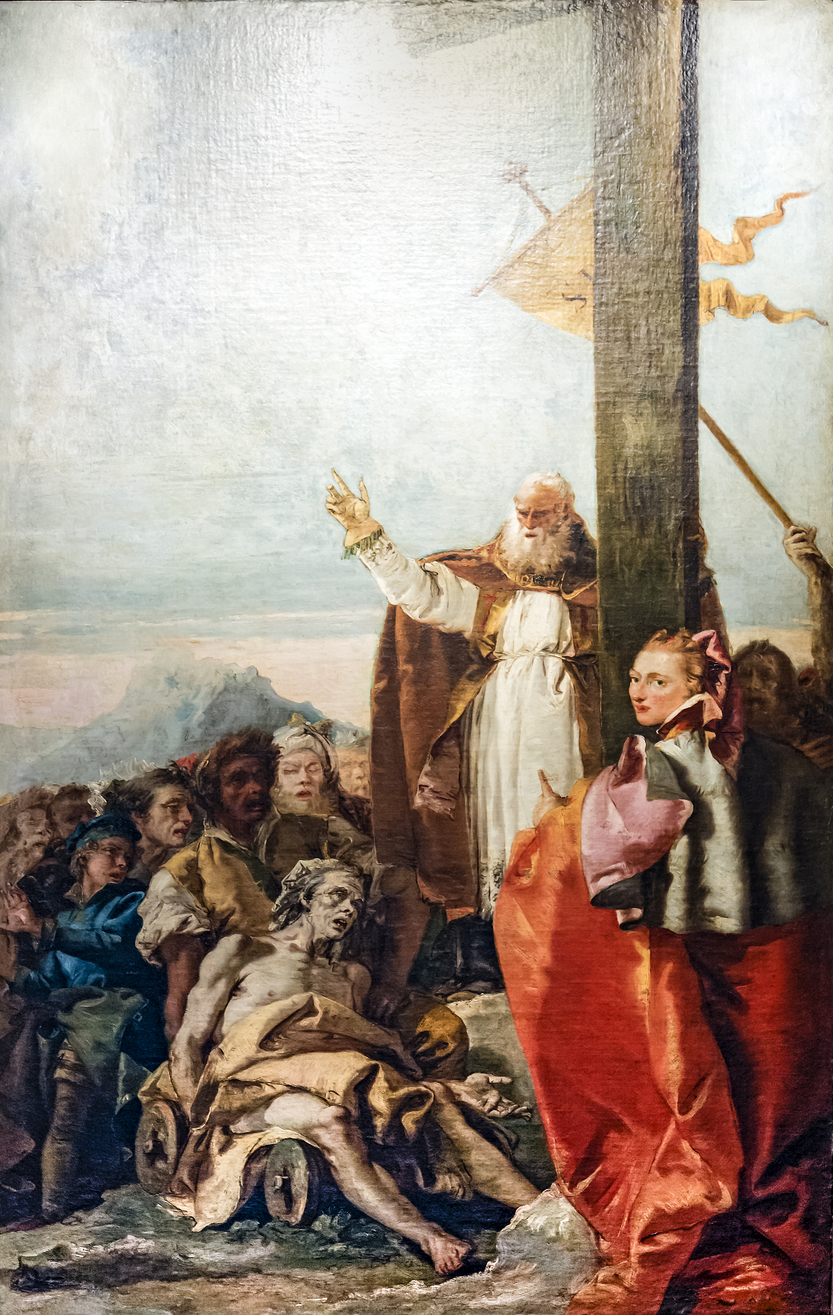 San Polo (church) - Oratory of the Crucifix Helena of Constantinople and the finding of the True Cross with Macarius of Jerusalem by Giandomenico Tiepolo. Oil on canvas (1745 -1749).